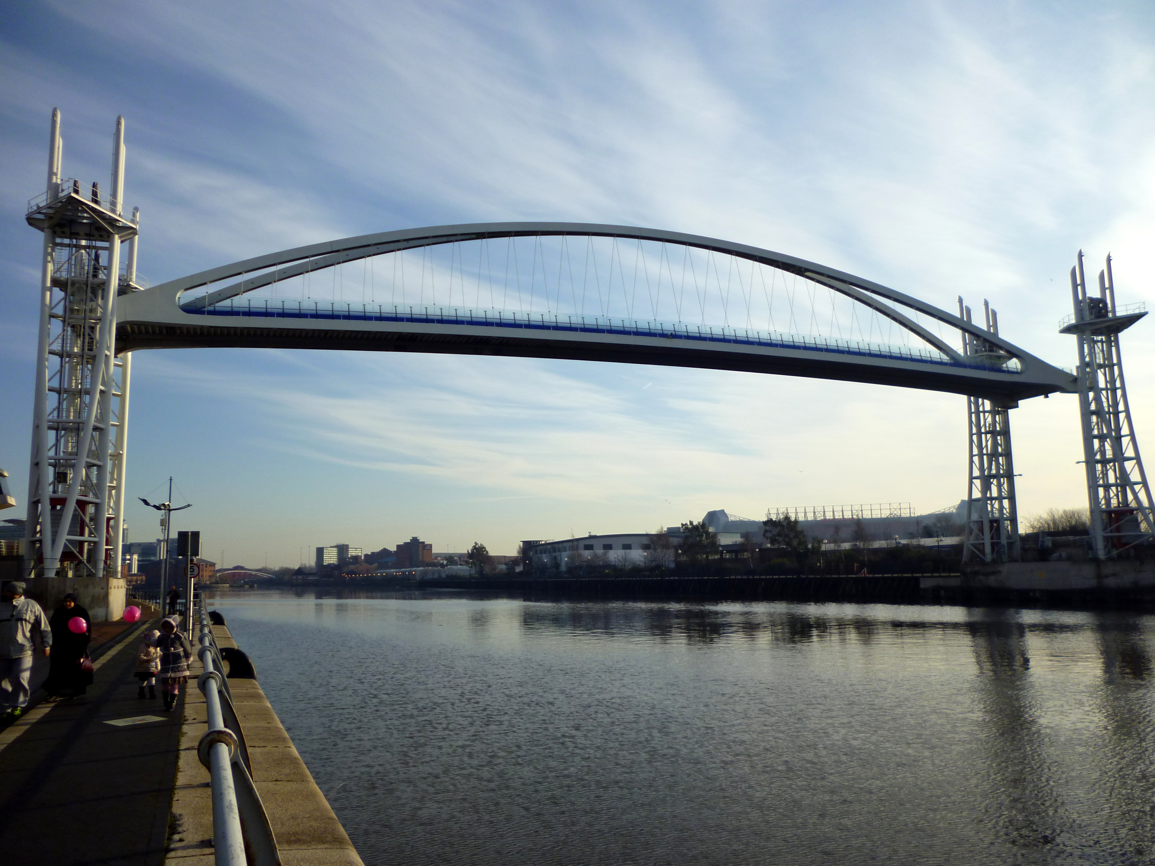 Fully raised to let a ship pass through.